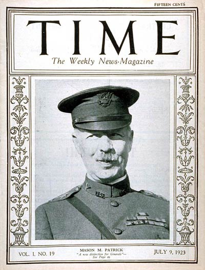 Mason Mathews Patrick Time Magazine